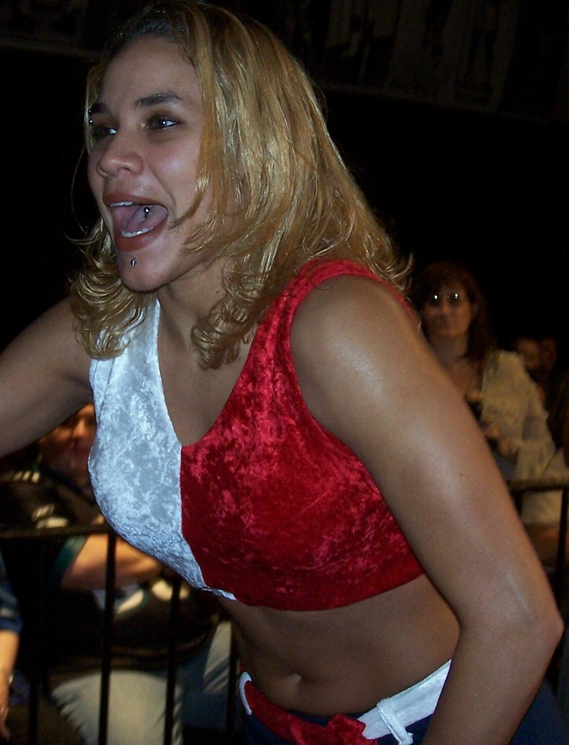 Mercedes Martinez at a Women's Extreme Wrestling event in 2006.